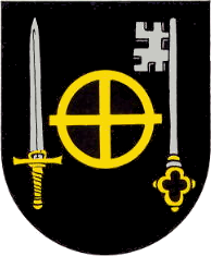 Coat of arms of Beindersheim